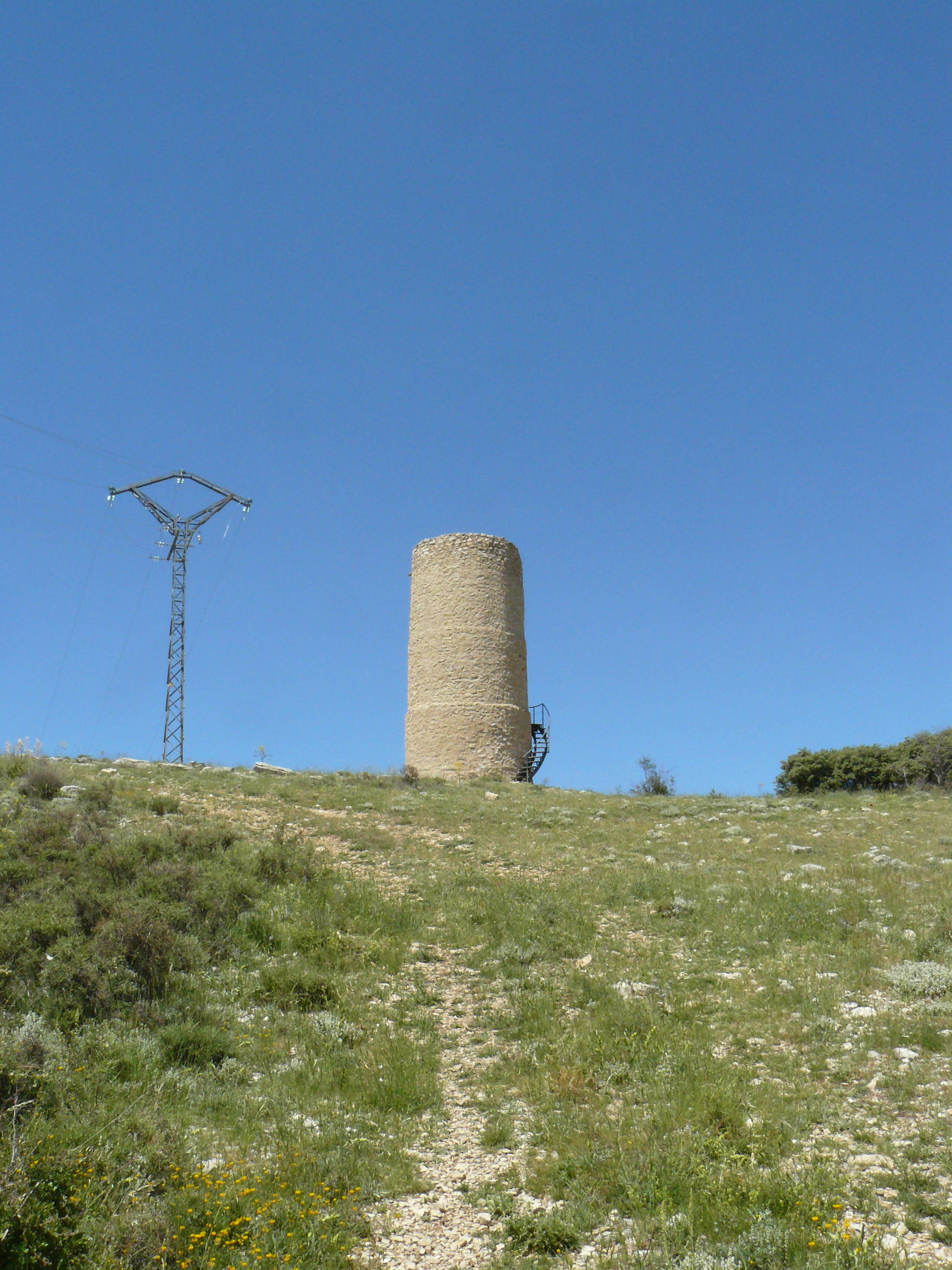 Watchtower at Caracena (Soria, Spain).